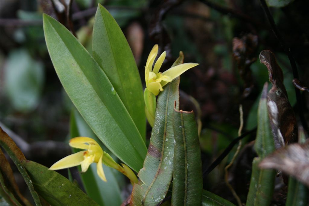 Maxillaria brunnea of mount Roraima, Venezuela